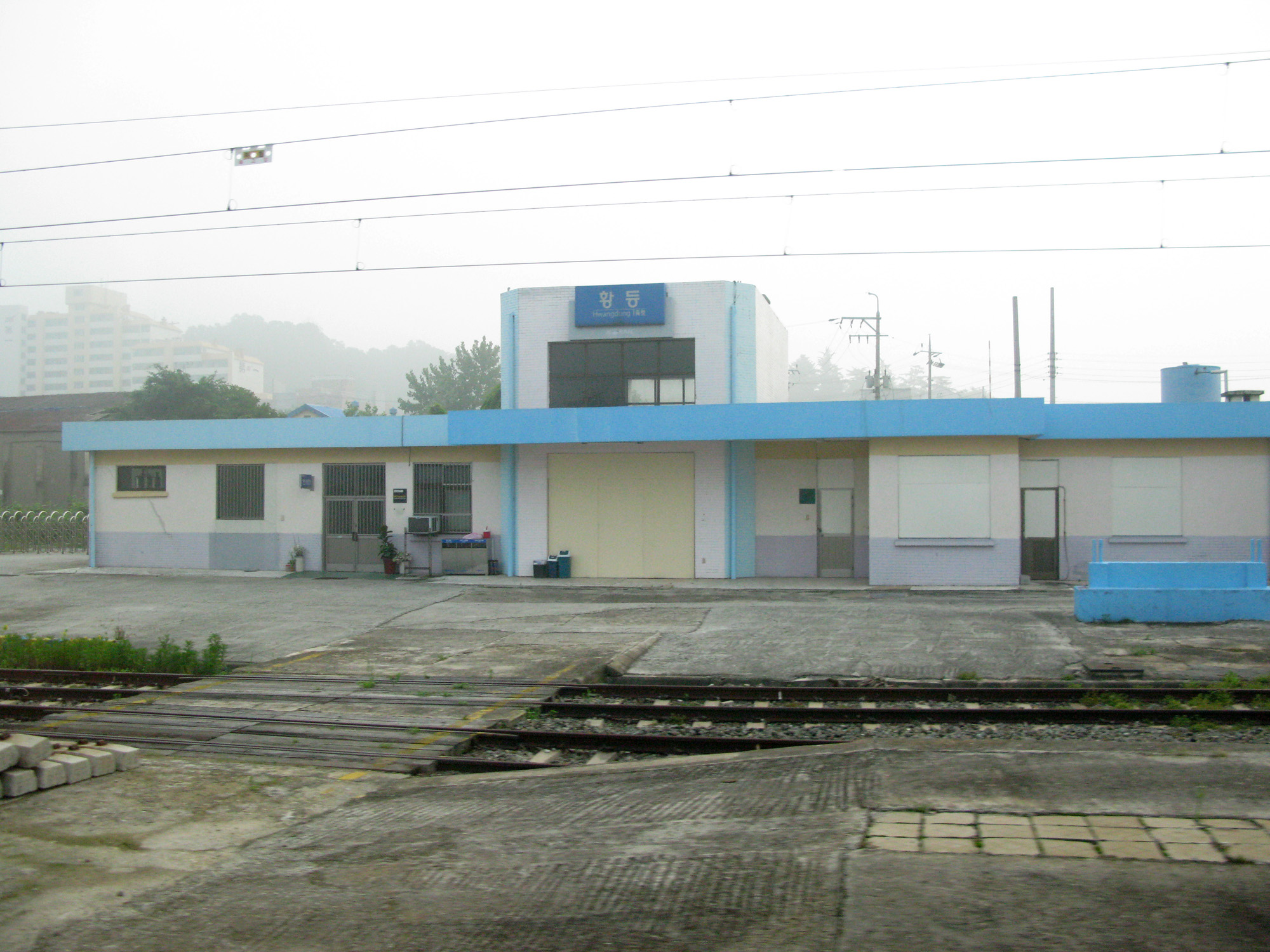 Honam Line Hwangdeung Station